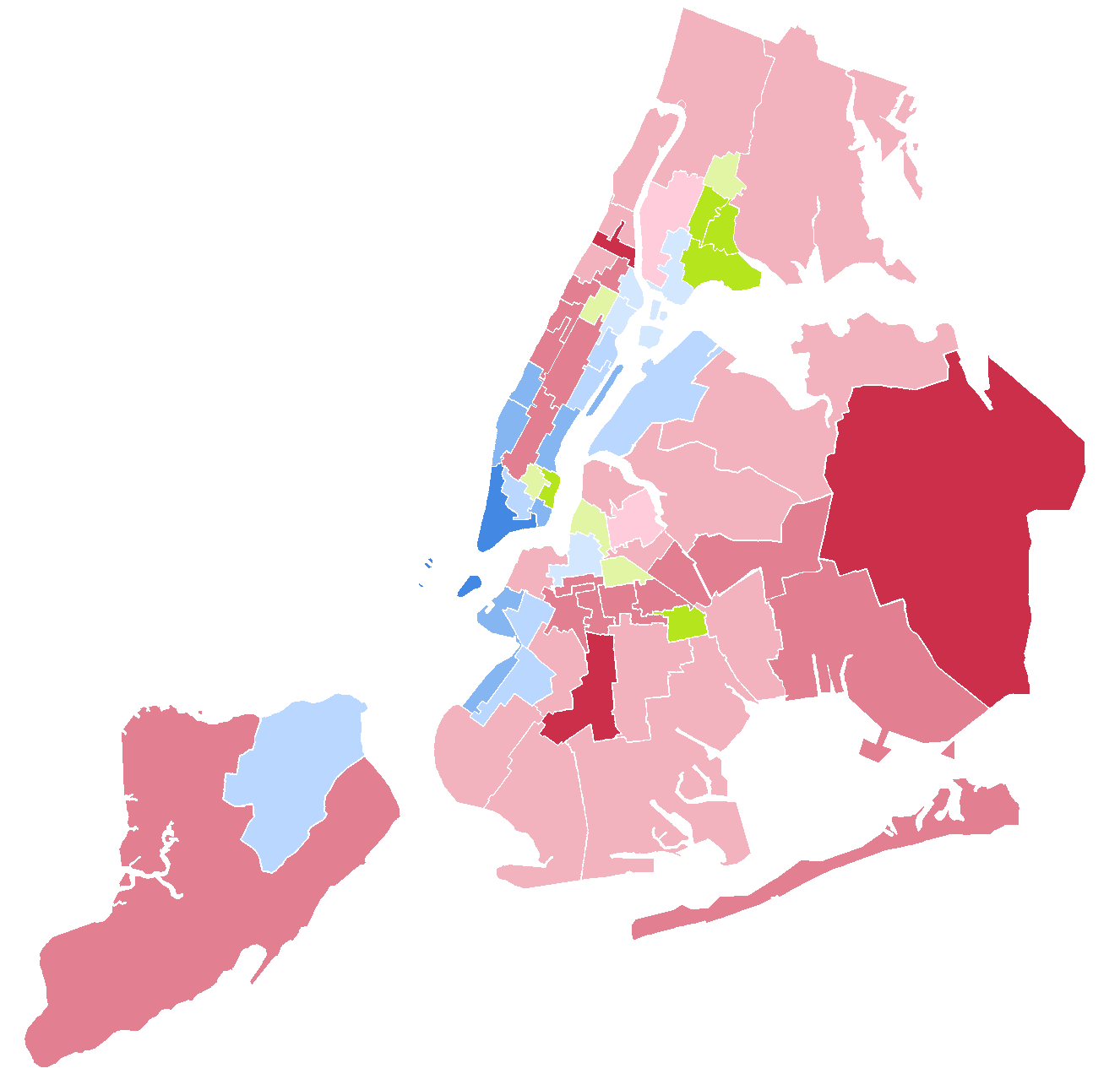 Results of the 1924 United States presidential election by New York City assembly district. Information courtesy of the Brooklyn Daily Eagle, November 5, 1924. As the figures provided in that paper do not match exactly with more authoritative recapitulations of New York City's overall results, it is useful only for the percentages of votes received by each candidate as depicted here rather than the exact numbers thereto.